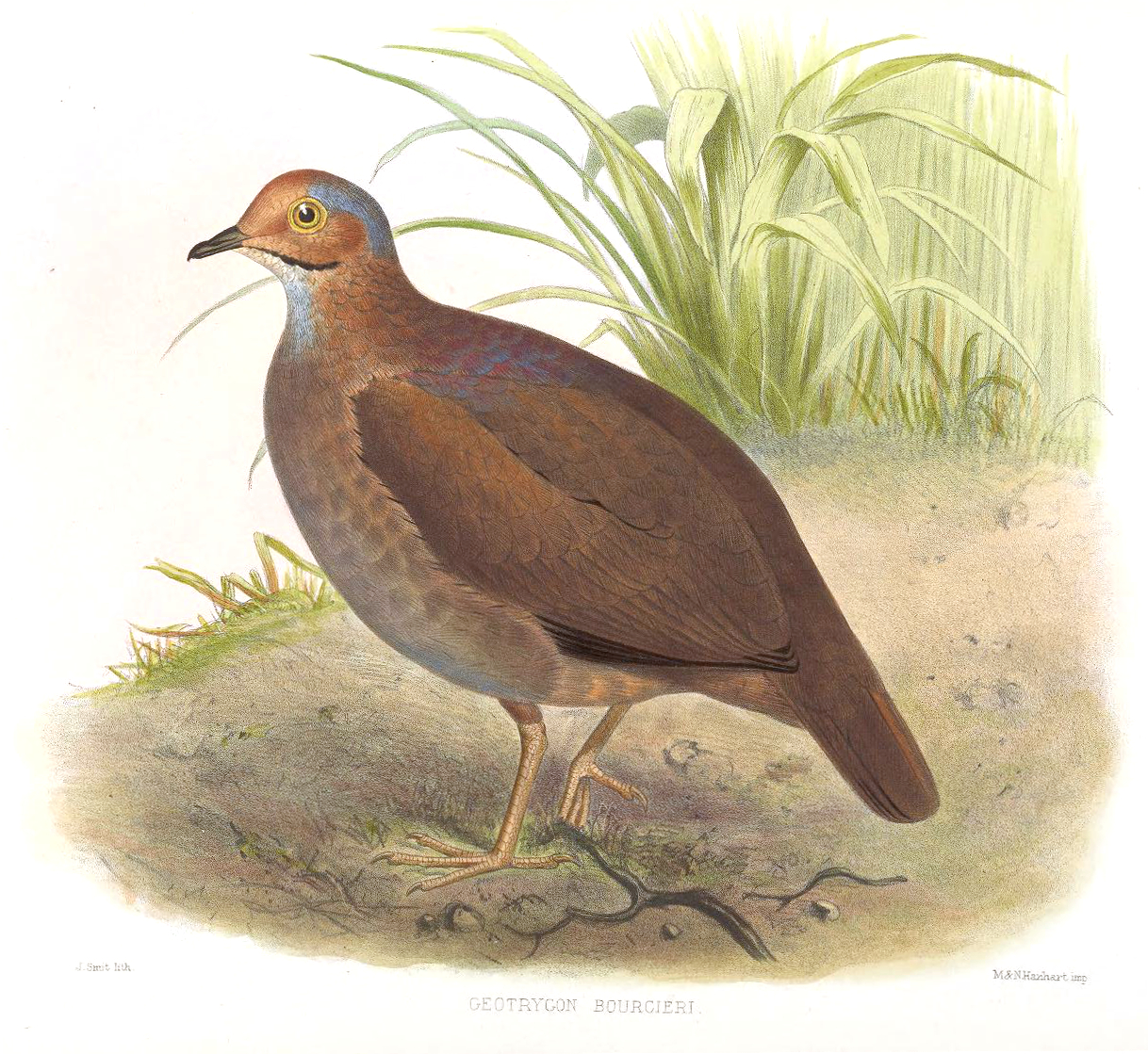 Geotrygon bourcieri=Geotrygon frenata